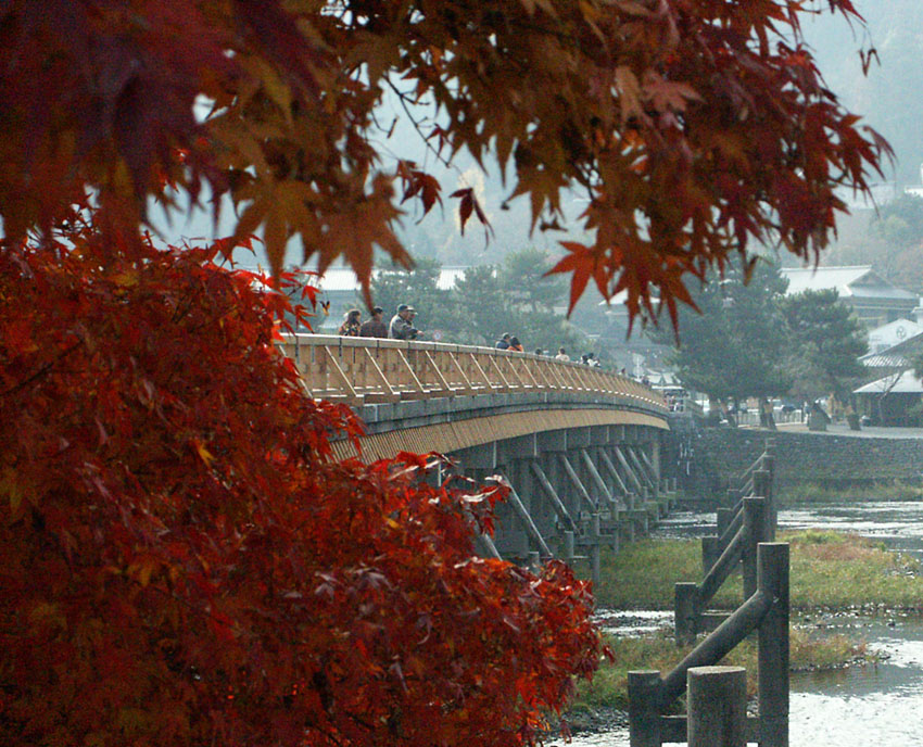 Togetsukyo, the bridge to heaven, in Kyoto, Japan.